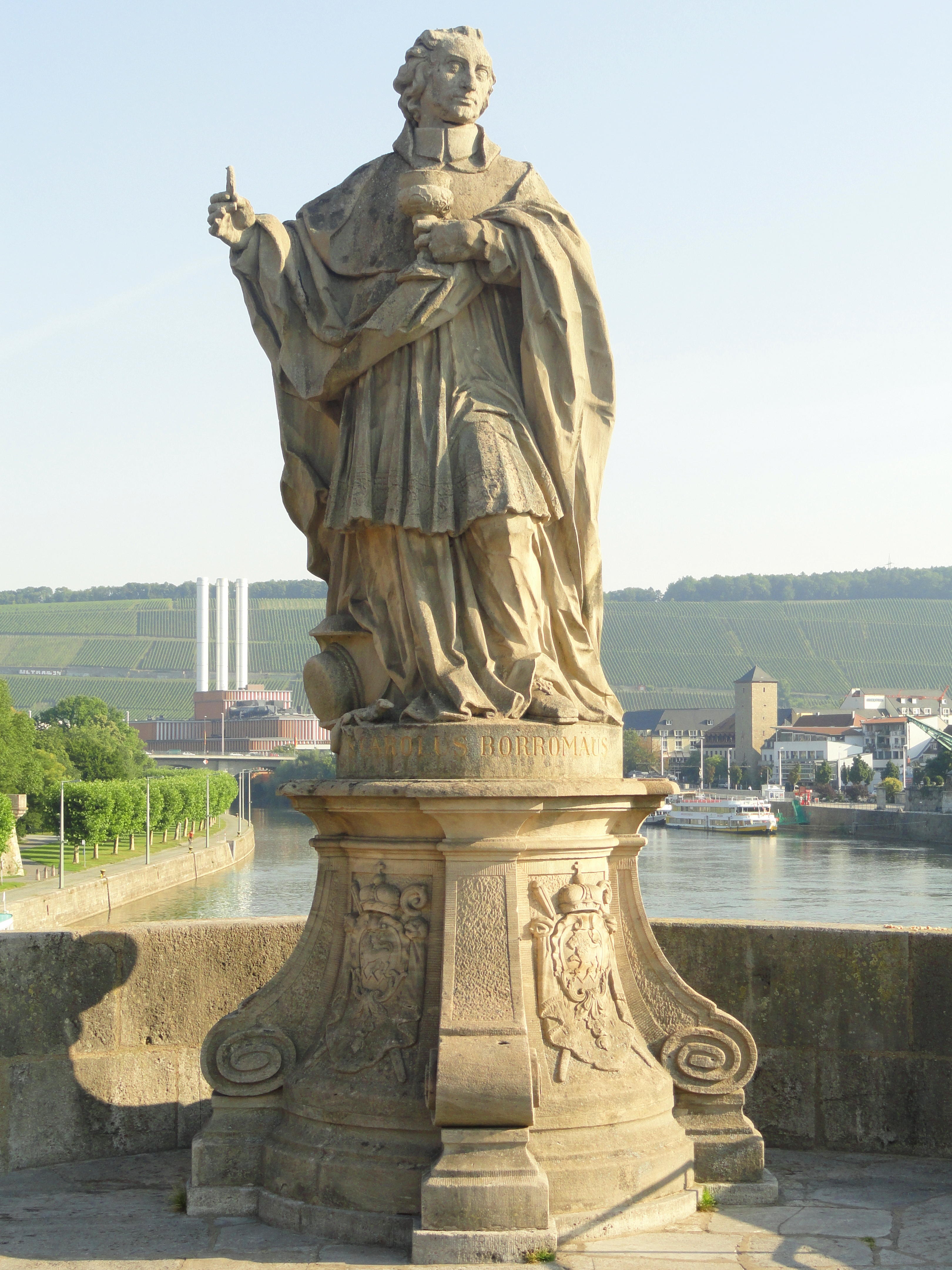 Statue on the Alte Mainbrücke in Würzburg, Germany.